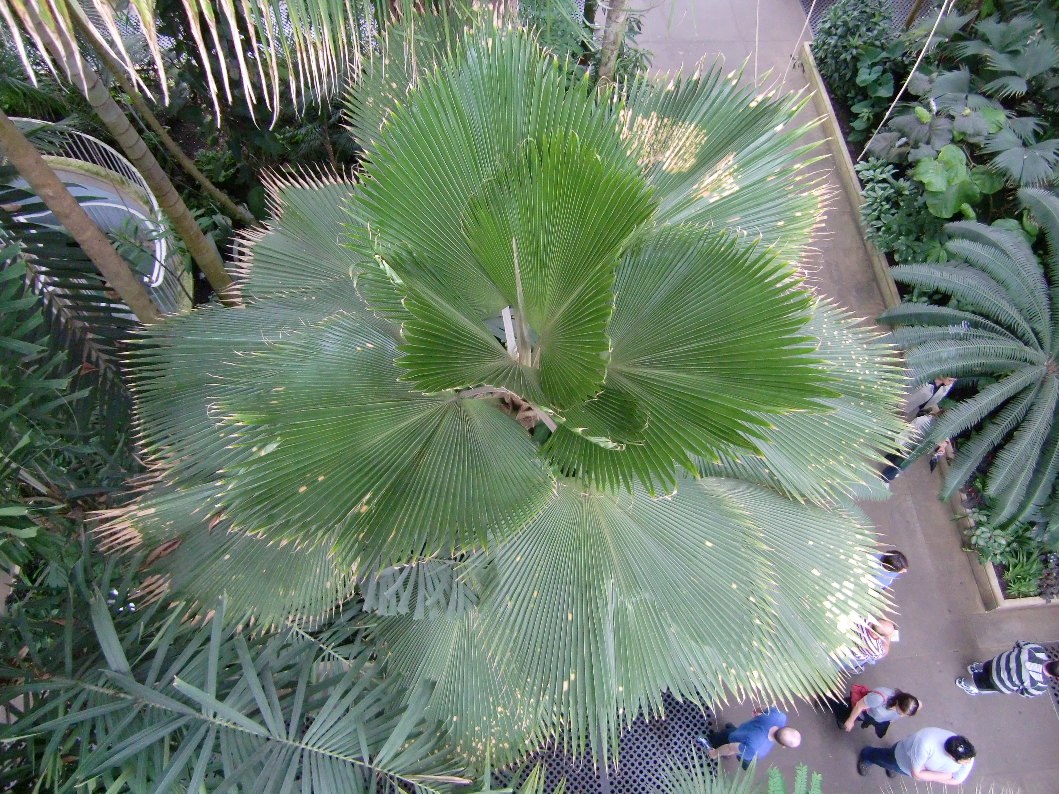 Fiji Fan palm viewed from above - Palm house, Kew gardens